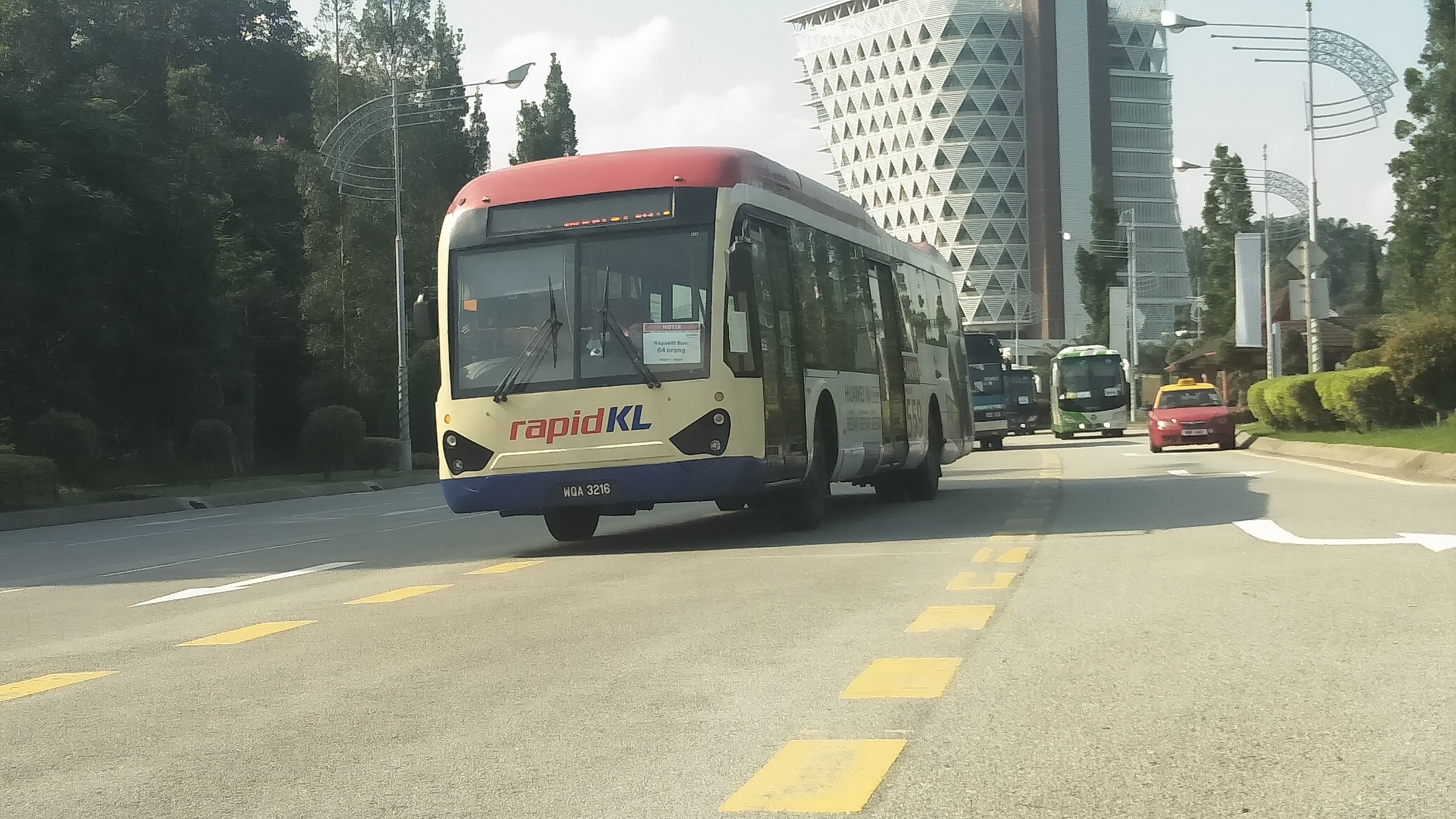 This is the only RapidKL services that runs through Presint 2, the central district of Putrajaya. This bus were shot at Dataran Pahlawan on evening rush hour.